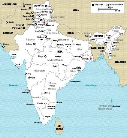 Comparative Army Corps Distribution: India and Pakistan. Based upon multiple sources including India and Pakistan Country Handbooks, Marine Corps Intelligence Activity, May and July 1995.